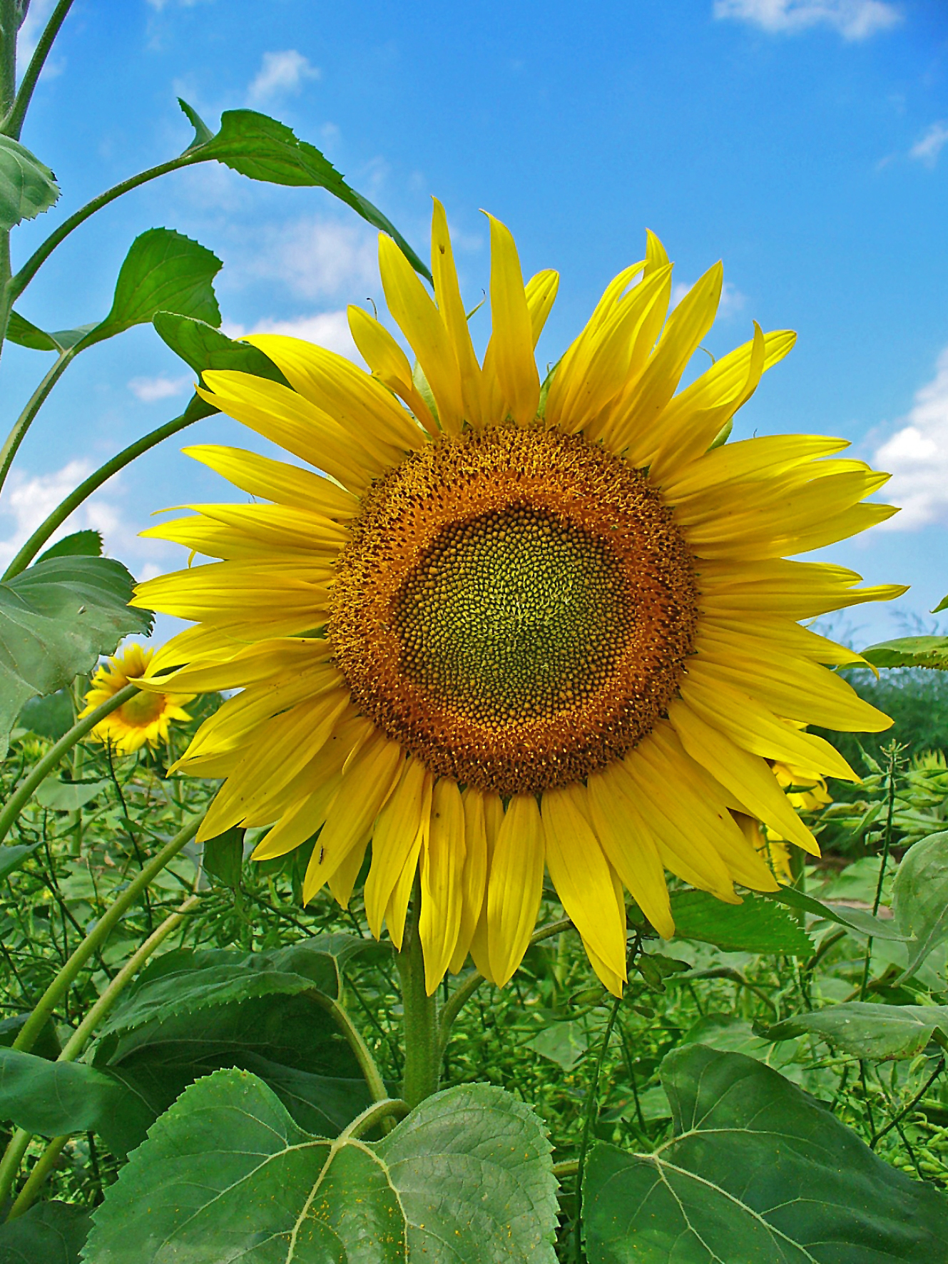 Helianthus annuus, Asteraceae, Sonnenblume, Inflorescence; Stutensee, Germany. The ripe fruits are used in homeopathy as remedy: Helianthus annuus (Helia.)